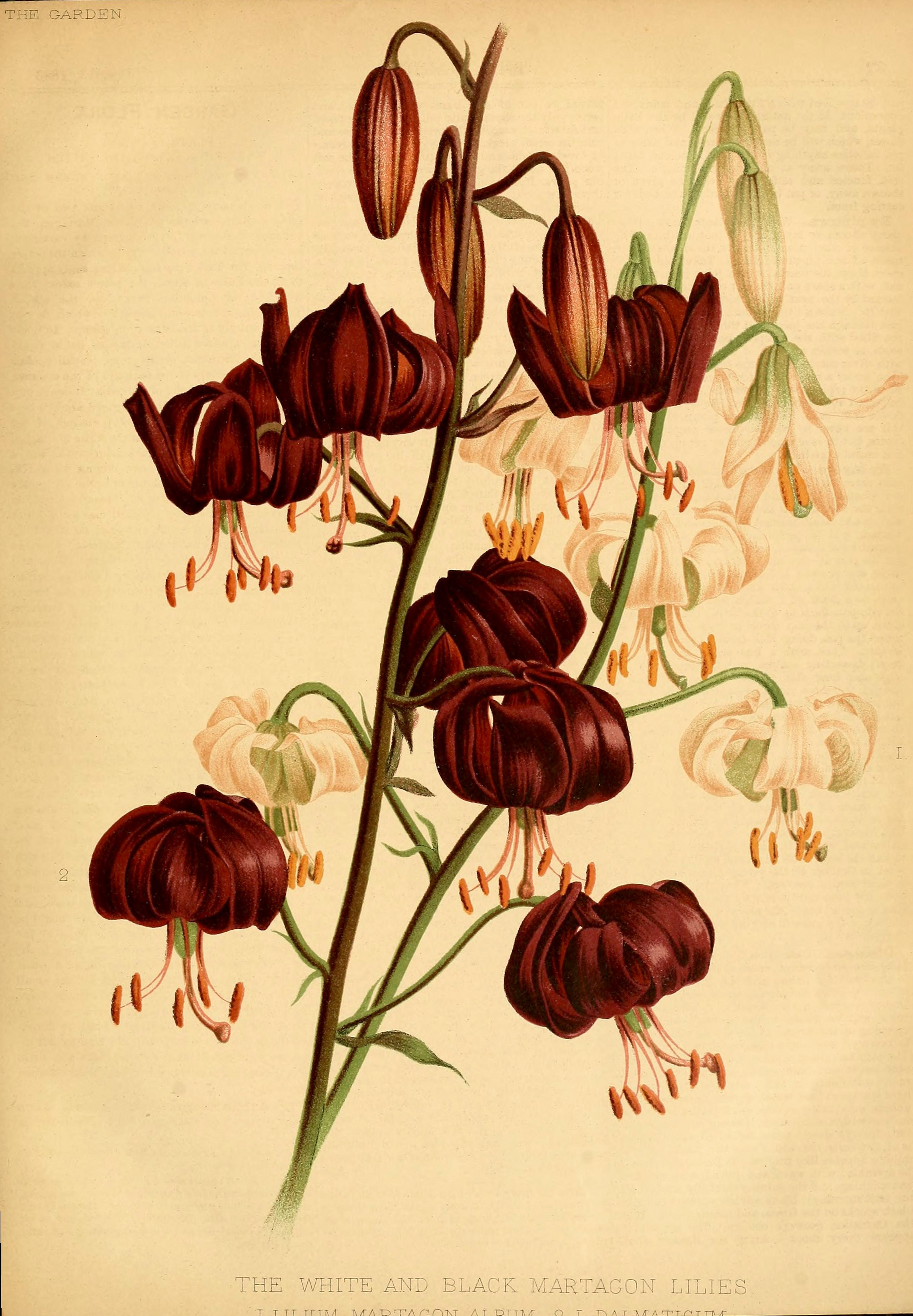 Lilium Martagon album and L. dalmaticum The Garden 1883 Januar 13